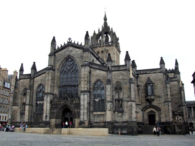 The Cathedral of St Giles, Edinburgh The historic City Church of Edinburgh with its famed crown spire, on the Royal Mile between Edinburgh Castle and the Palace of Holyroodhouse. Also known as the High Kirk of Edinburgh, it is Presbyterianism's Mother Church and contains the Chapel of the Order of the Thistle (Scotland's chivalric company of knights headed by the Queen). There is record of a parish church in Edinburgh by the year 854, served by a vicar from a monastic house, probably in England. It is possible that the first church, a modest affair, was in use for several centuries before it was formally dedicated by the bishop of St Andrews on 6 October 1243. The parish church of Edinburgh was subsequently reconsecrated and named in honour of the patron saint of the town, St Giles, whose feast day is celebrated on 1 September.